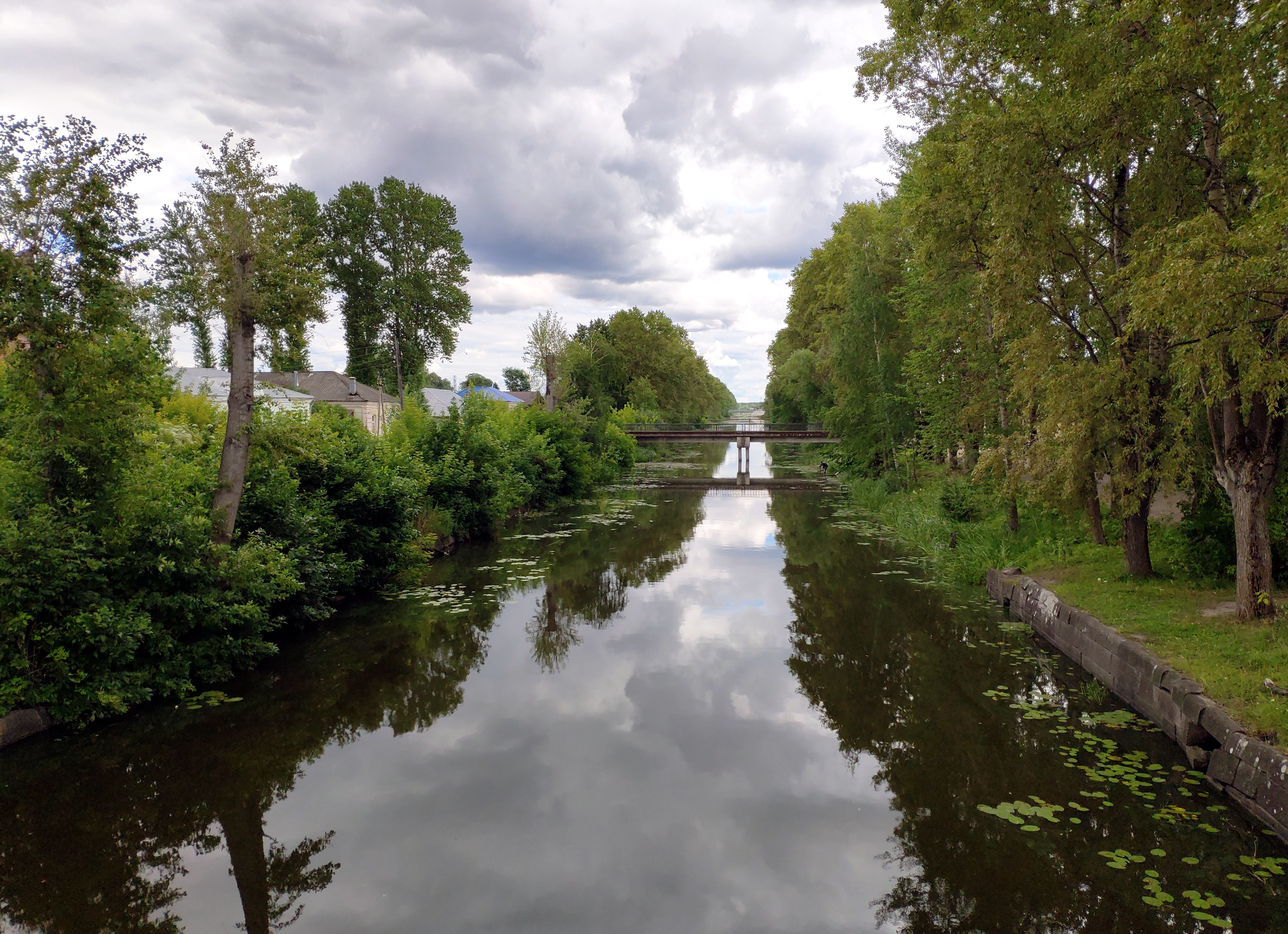 Tveretsky Canal from the bridge at the mouth of the canal in the Vyshny Volochyok Reservoir.